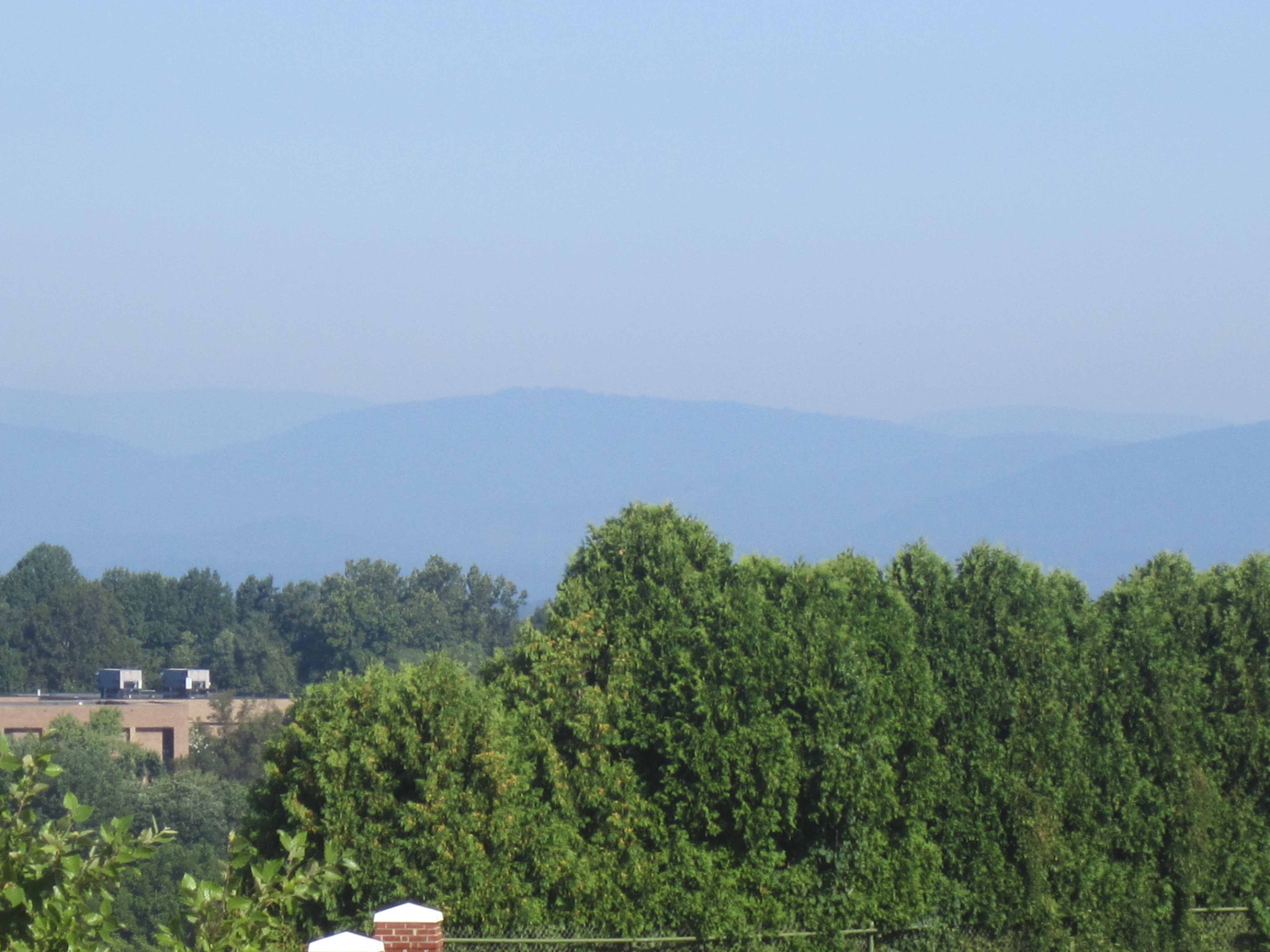 I took photo with Canon camera in Lynchburg, VA, of Blue Ridge Mountains in the background.